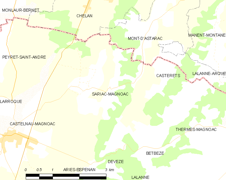 Map of French municipality